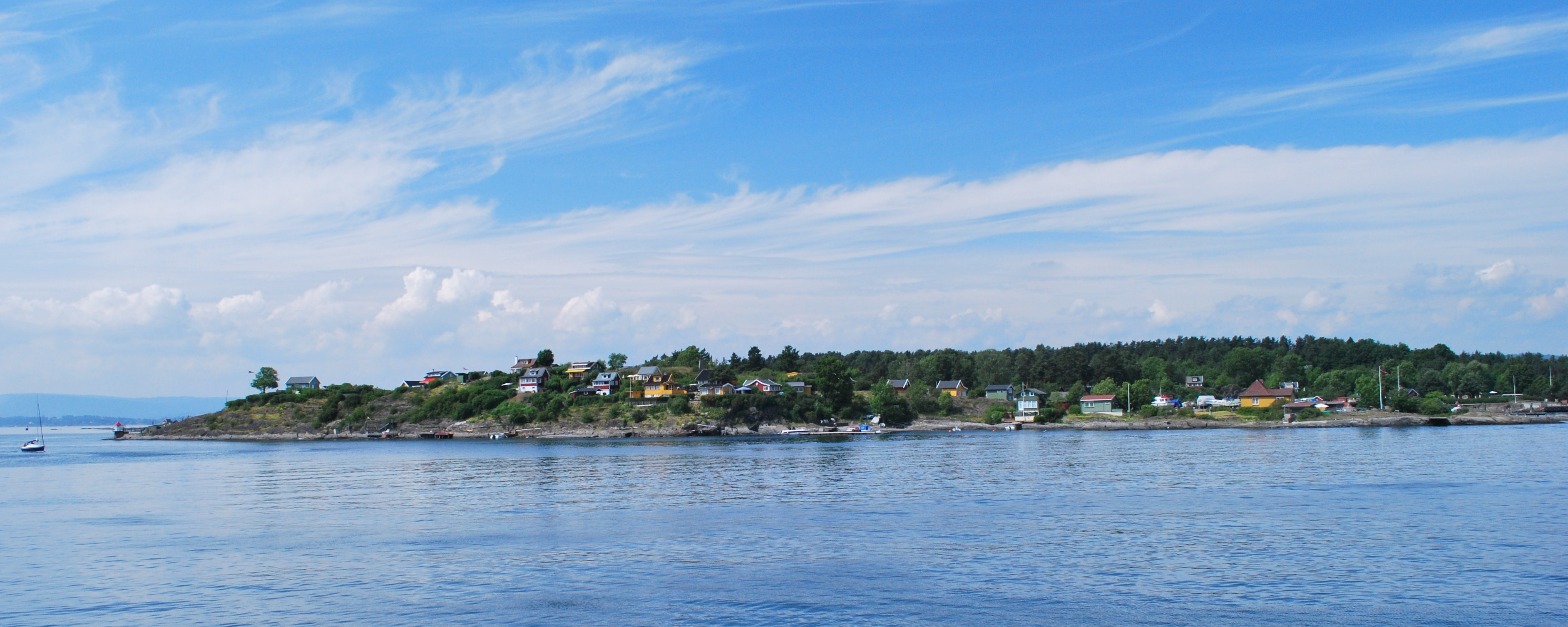 East side of Lindøya, Oslo